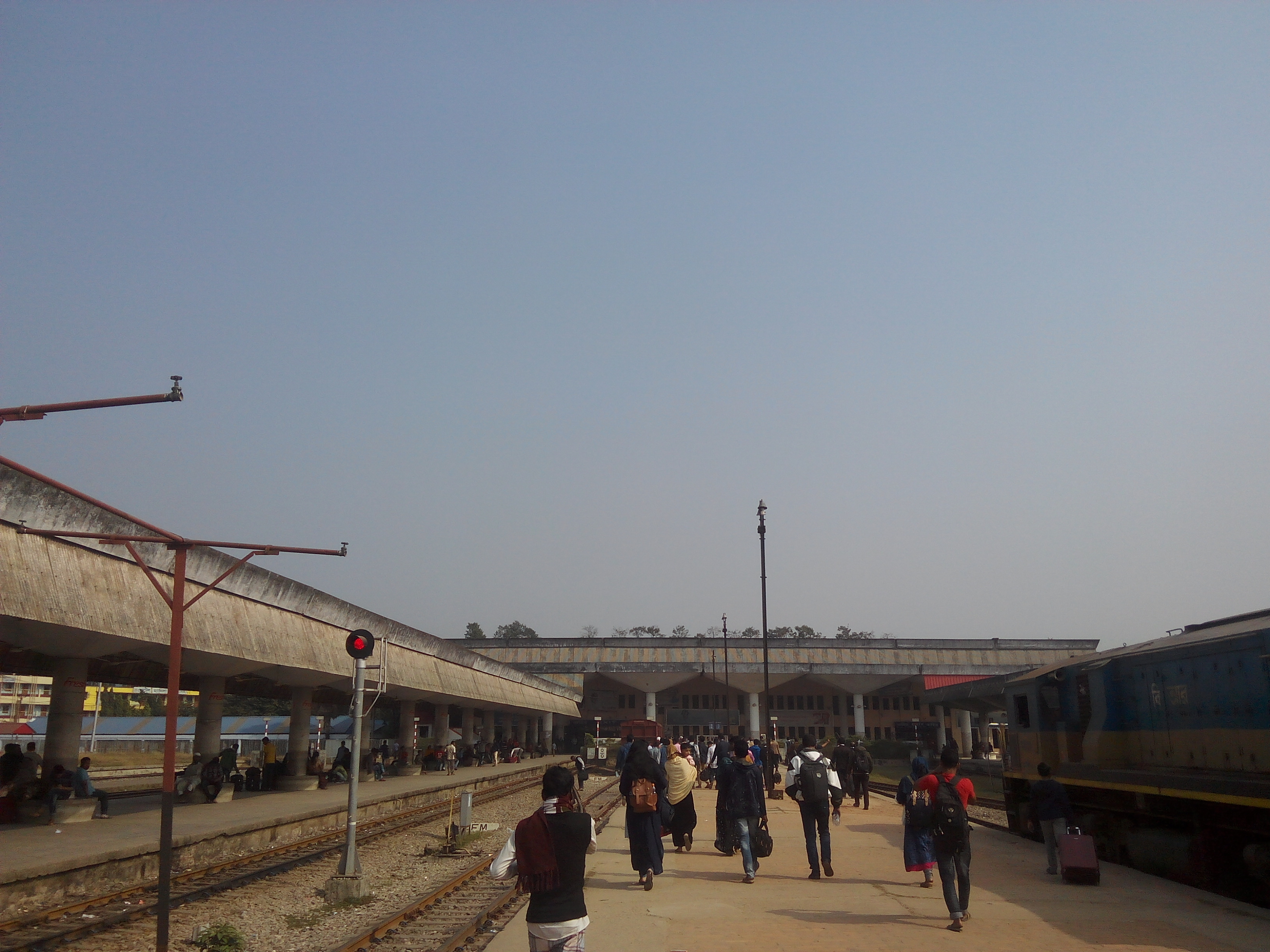 Chittagong Rail Station